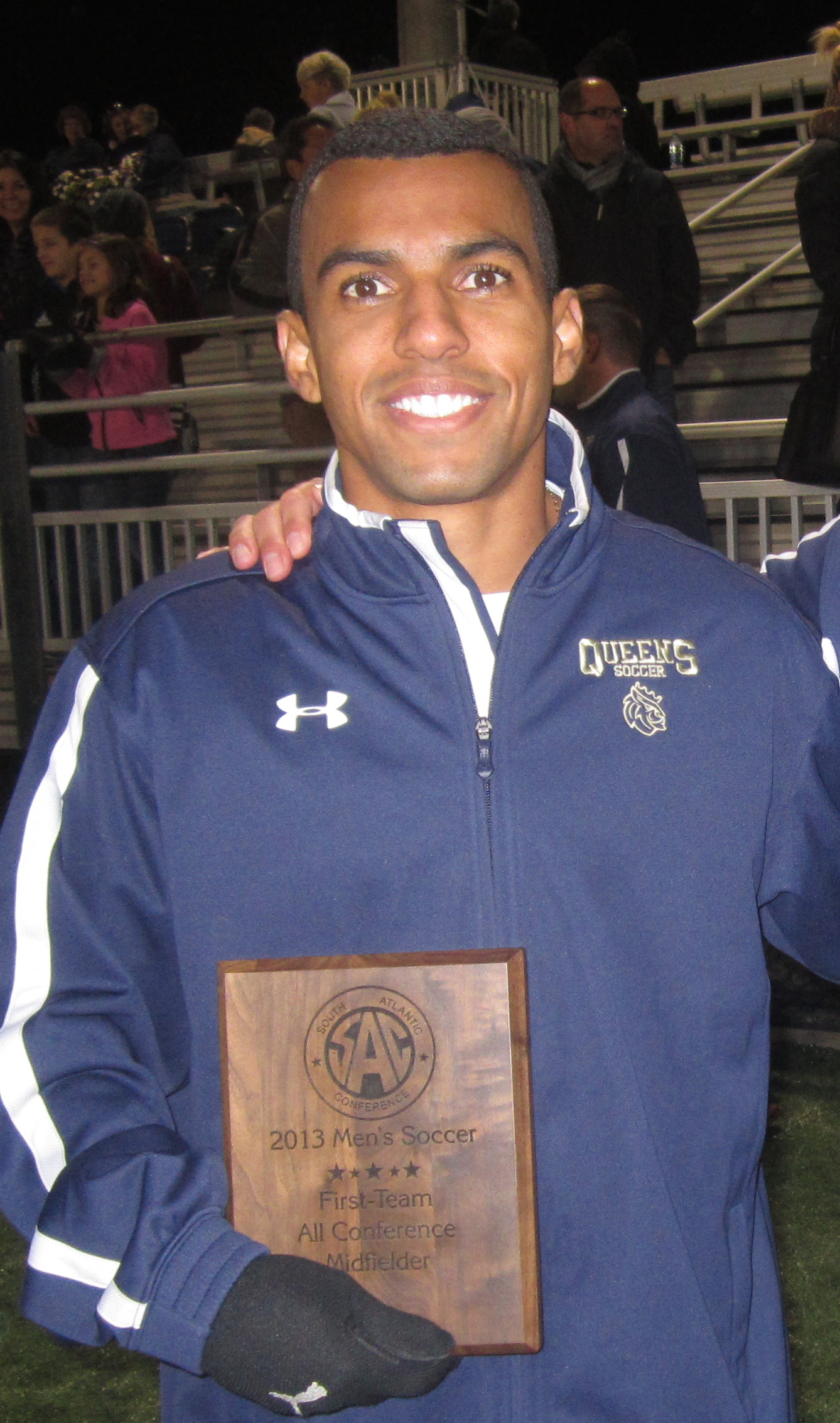 Andrade receiving the award Most Valuable Player of the tournament.